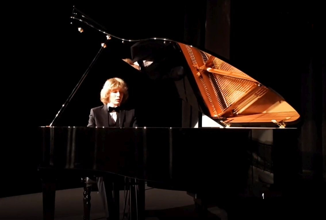 Ivan Alekseevich Bessonov, a Russian pianist and composer